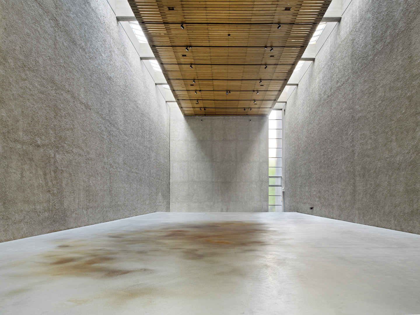 Through a laborious deconstructive process, the customary components of a cafeteria – steel folding chairs, collapsible tables of steel and wood — have been reduced to particle form, chemically modified and then dissolved across the expanse of the gallery floor. A reduction of the original institution into an emulsive stain.